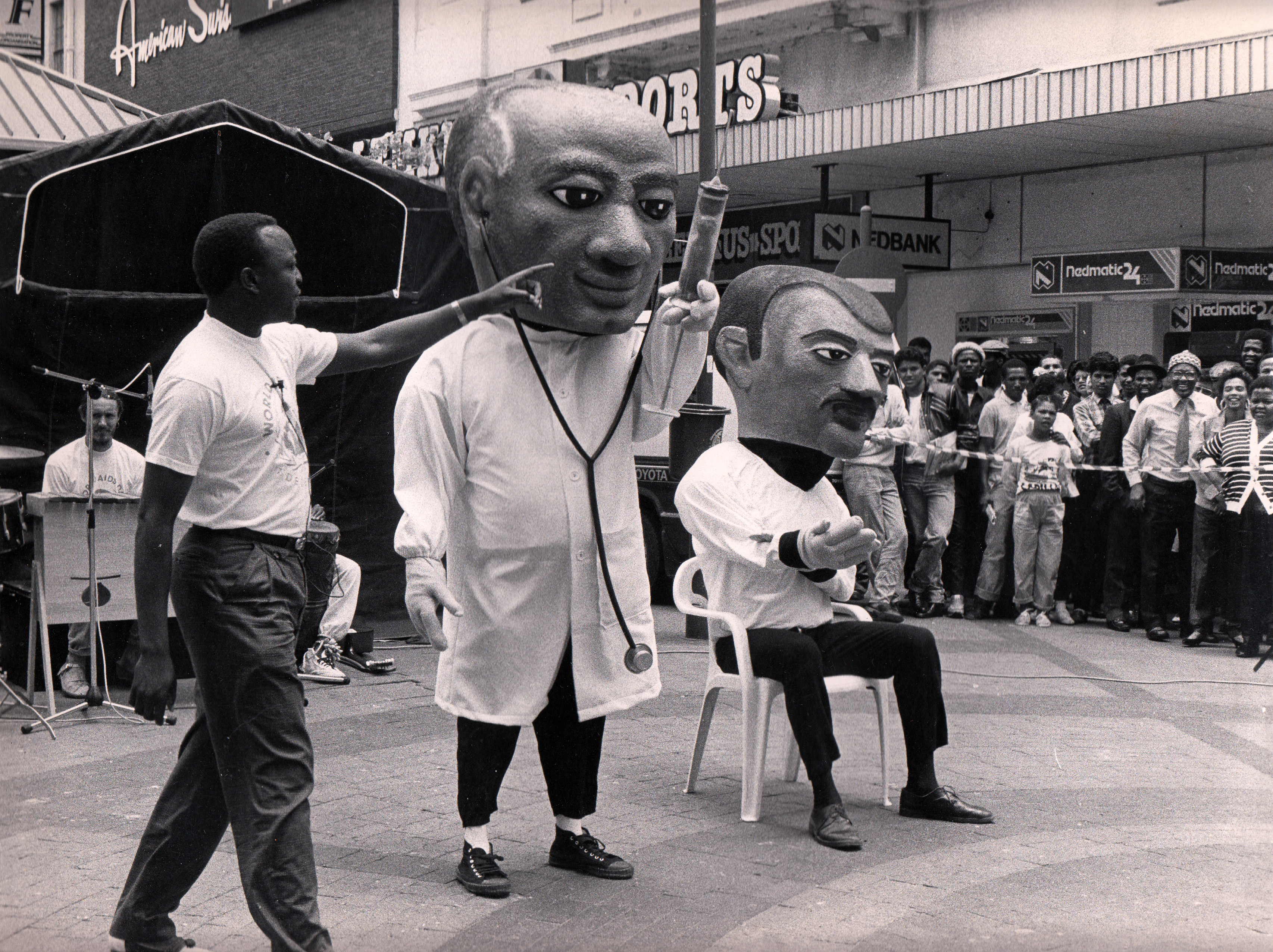 Cape Town, South Africa, 1980s. World AIDS Day Performance of Puppets Against AIDS. A puppeteer playing a doctor is drawing blood from Joe, the protagonist of the puppet show, to see if Joe tests positive for HIV.